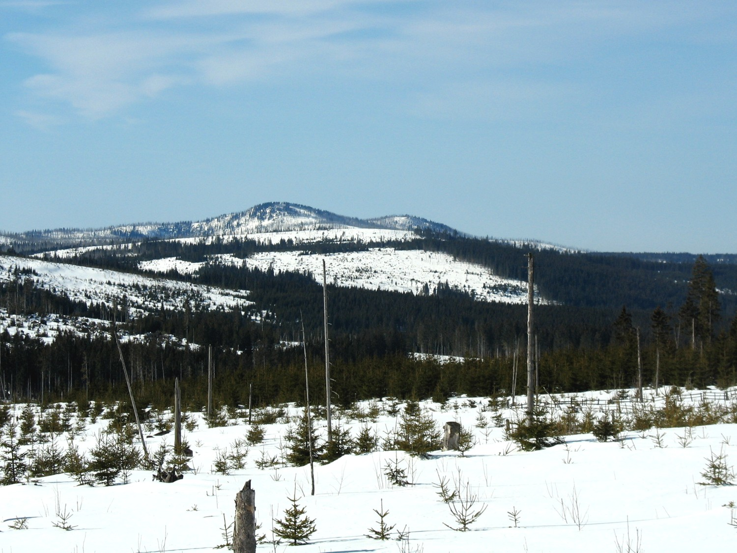 The view of Rachel from the mountain Černá hora in the Šumava Mts., Czech republic